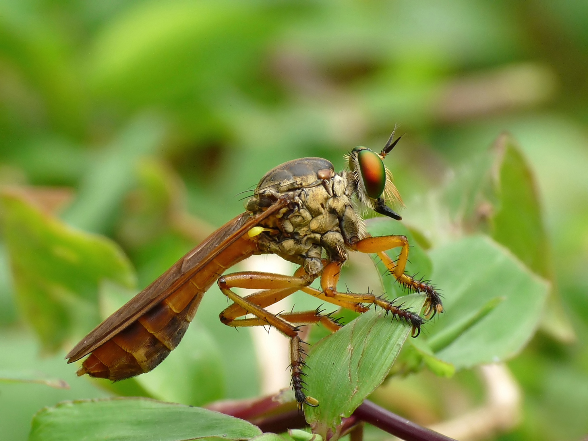 Michotamia aurata, female. Insects in the Diptera family Asilidae are commonly called robber flies. The family Asilidae contains about 7,100 described species worldwide. Taken at Kadavoor, Kerala, India. Identified by Eric Fisher at